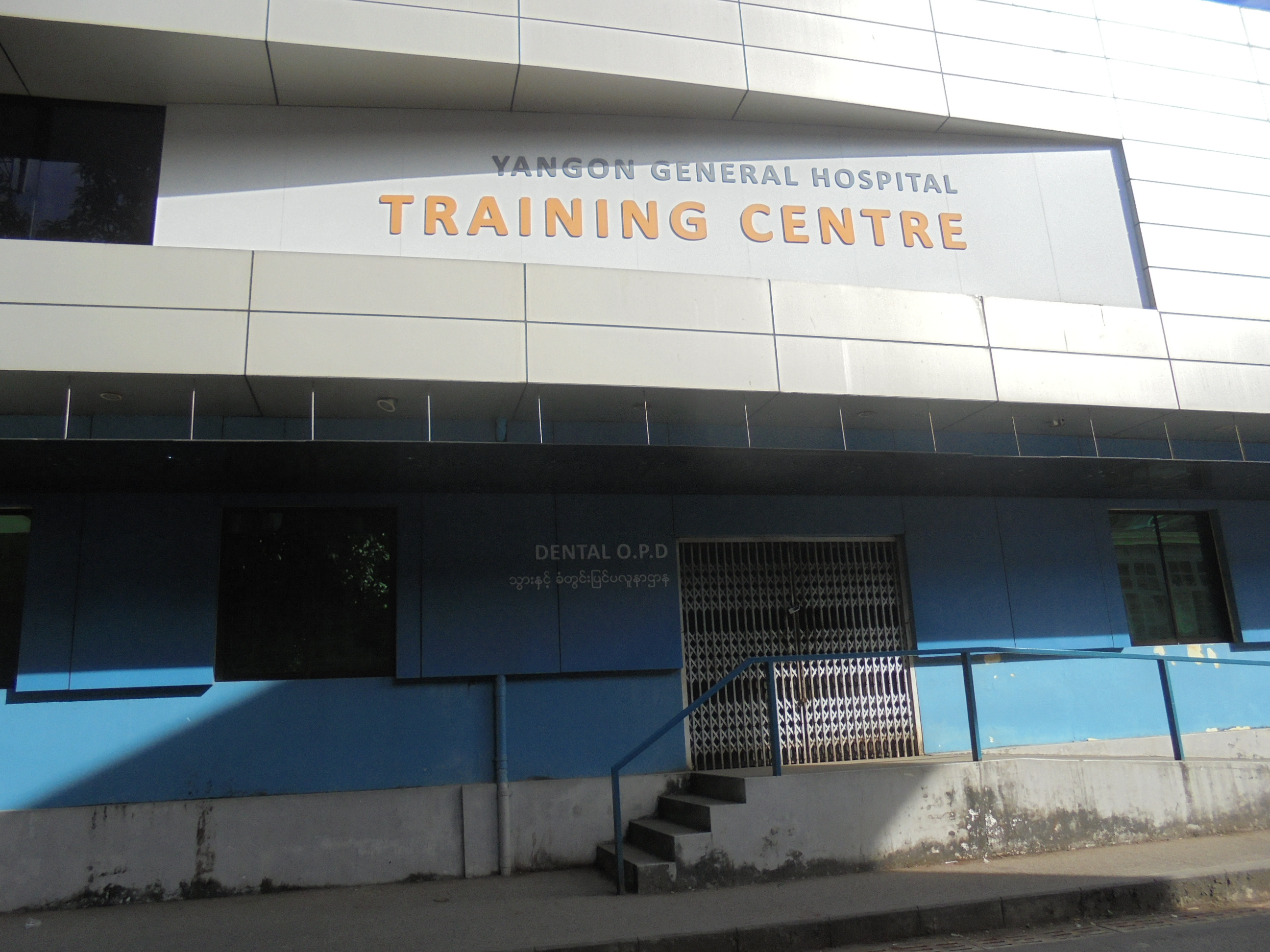 This is Yangon General Hospital Training Centre (Dental Out Patient Department). It is situated in compound of Yangon General Hospital. The entrance can be seen from Lanmadaw Road. The service fees of dental treatment is free of charge.